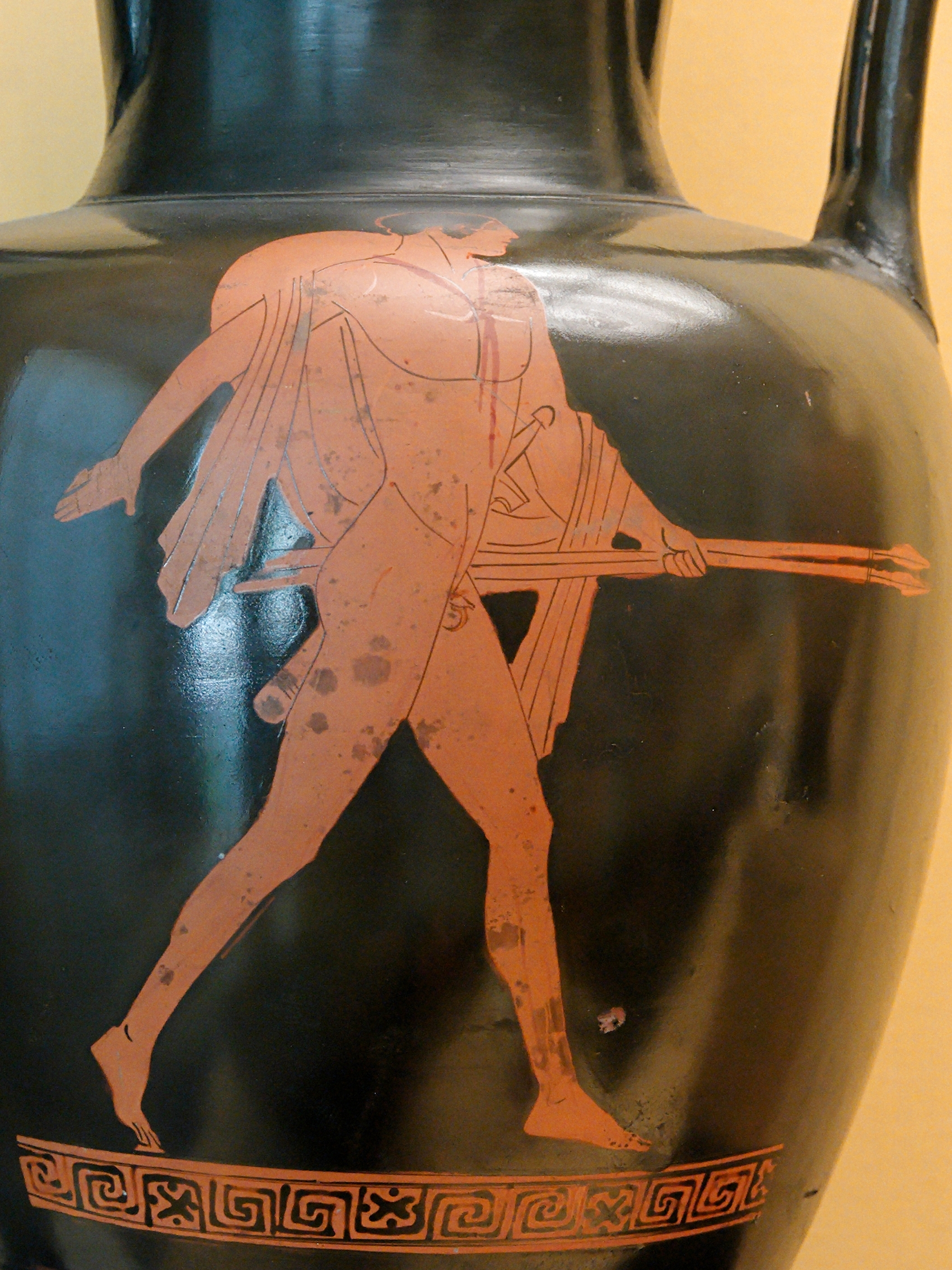 Ephebe wearing a red fillet in his hair, a petasos around his neck and a himation in the crook of his arm, holding two spears and a sword. Side A of an Attic red-figure amphora, ca. 440 BC.